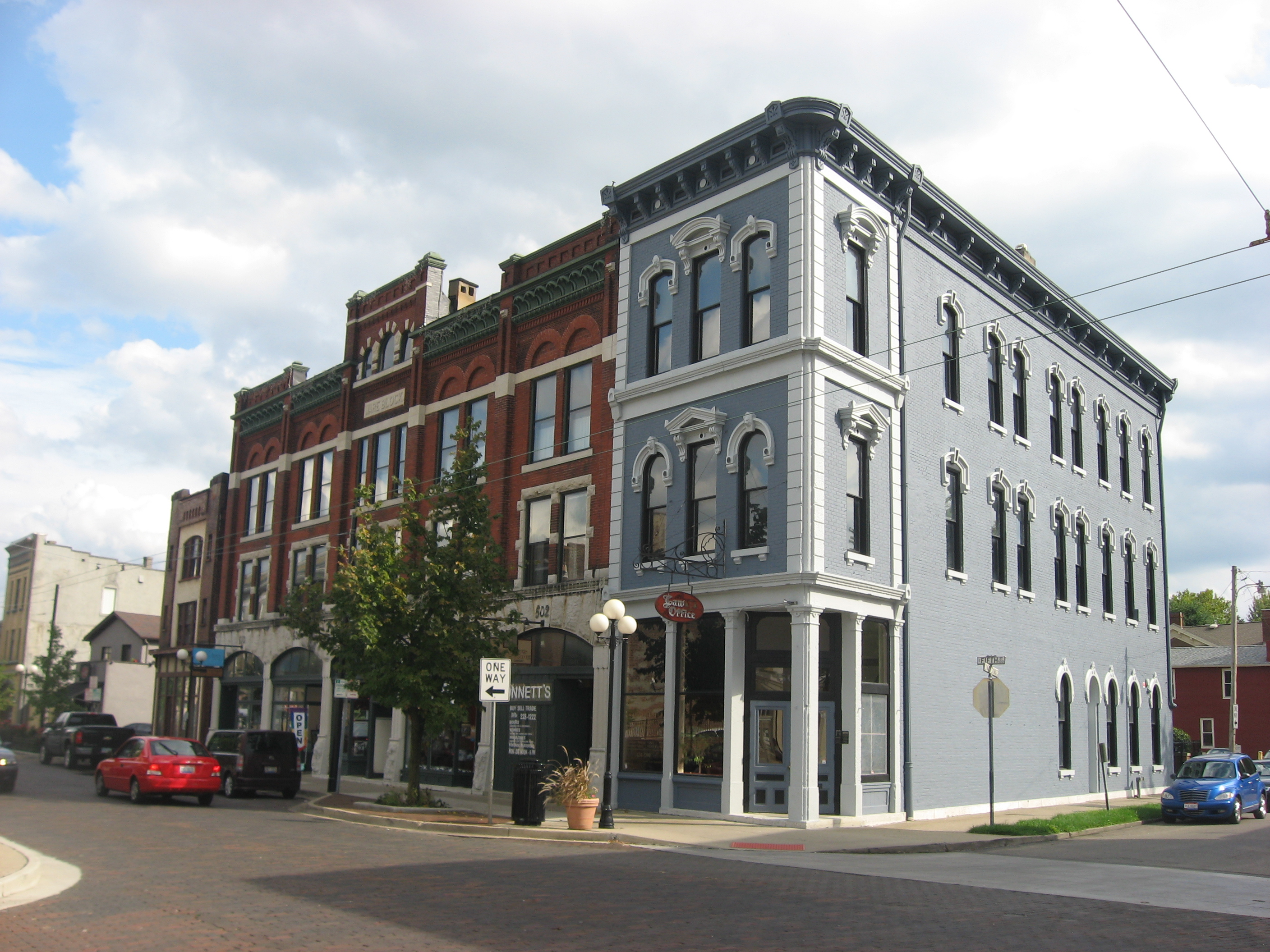 Buildings on the southeastern corner of the intersection of Fifth and Jackson Streets in Dayton, Ohio, United States. This block is part of the Oregon Historic District, a historic district that is listed on the National Register of Historic Places.